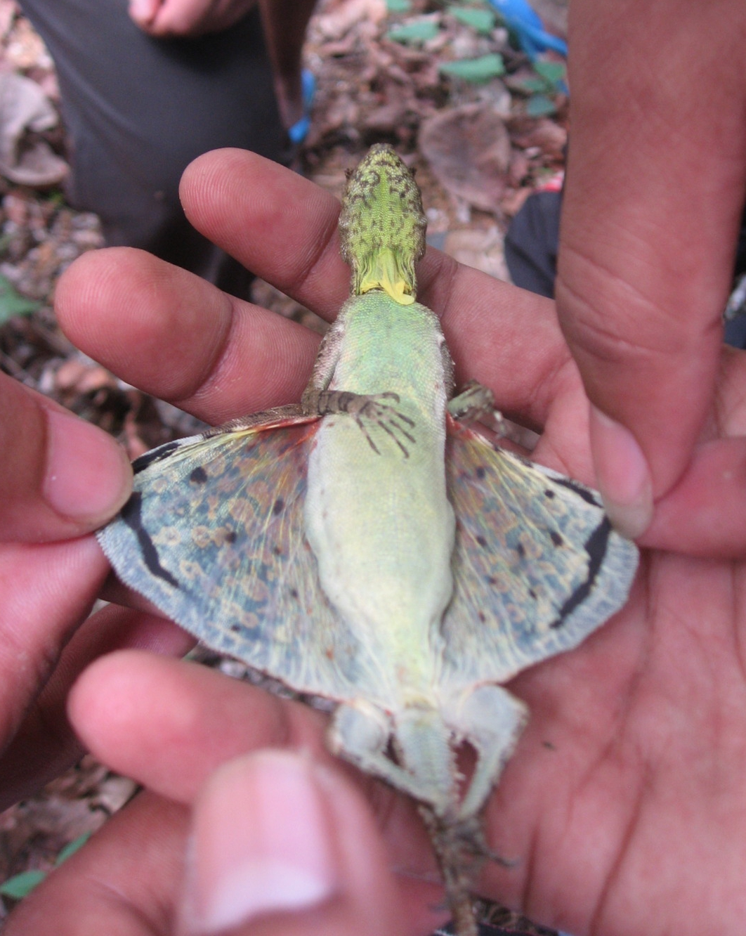 A Specimen of Draco Dussumieri shot at ARRS (Agumbe, Karnataka, India).